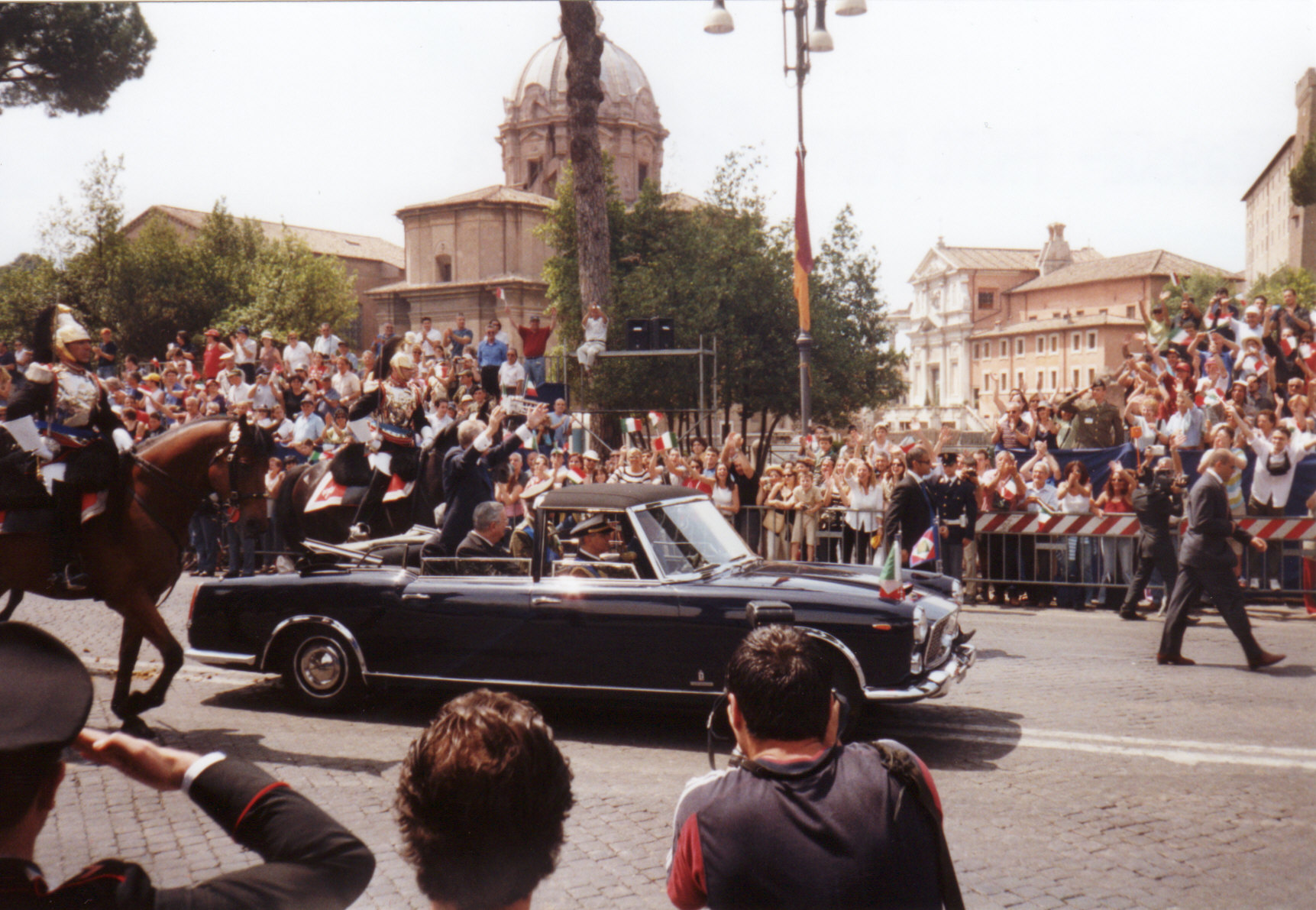 Army parade of Republic Day, Rome (Italy).